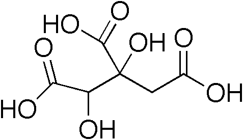 Chemical structure of hydroxycitric acid